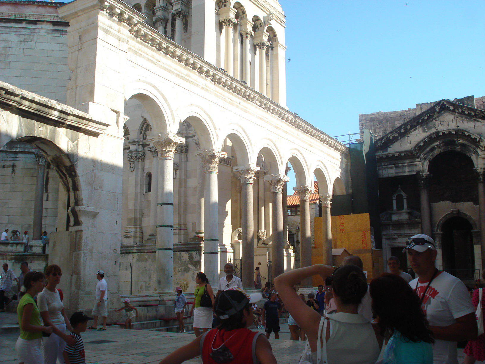 Peristil - the interior square within the Diocletian's Palace, Split (Croatia)